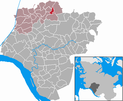 This map shows the area of the municipality Christinenthal in the Kreis (district) Steinburg, Schleswig-Holstein, Germany.